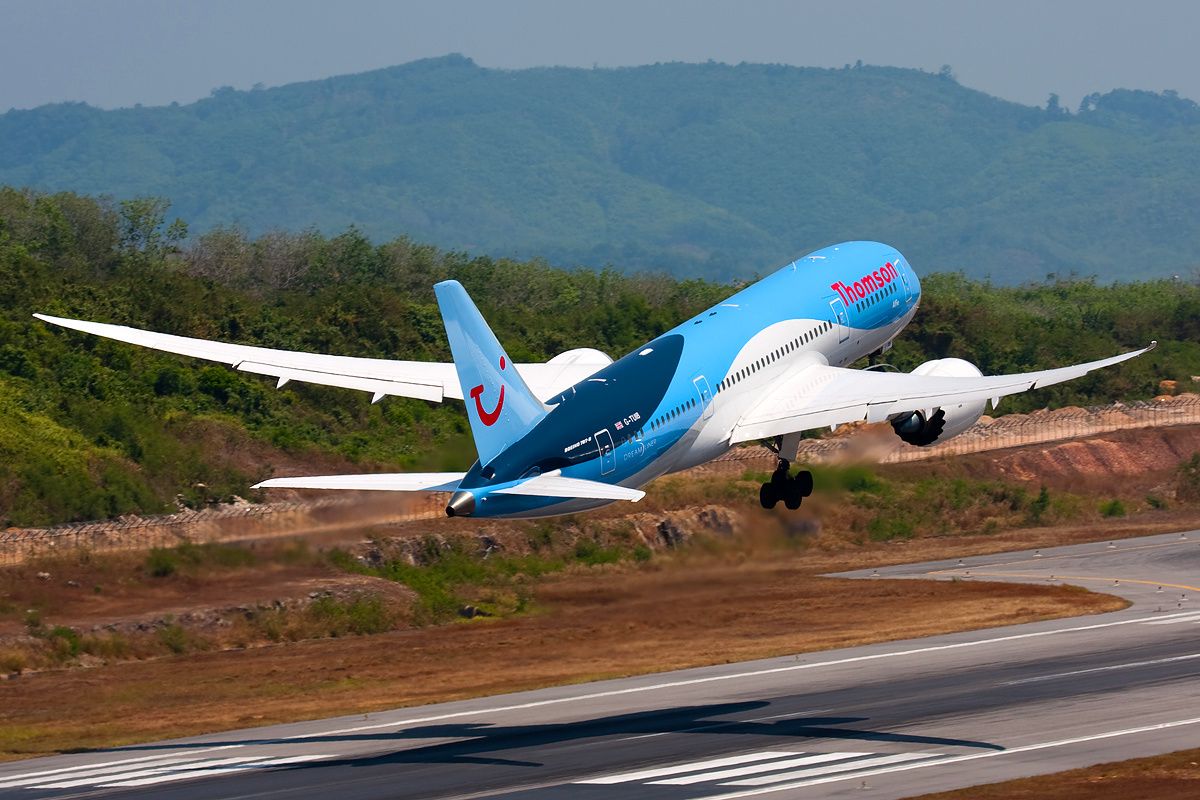 Thomson Airways Boeing 787-8 takes off at Phuket International Airport